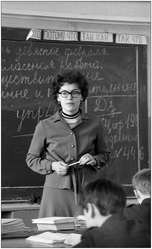 The final year student of PetrSU on teaching practice in a school.